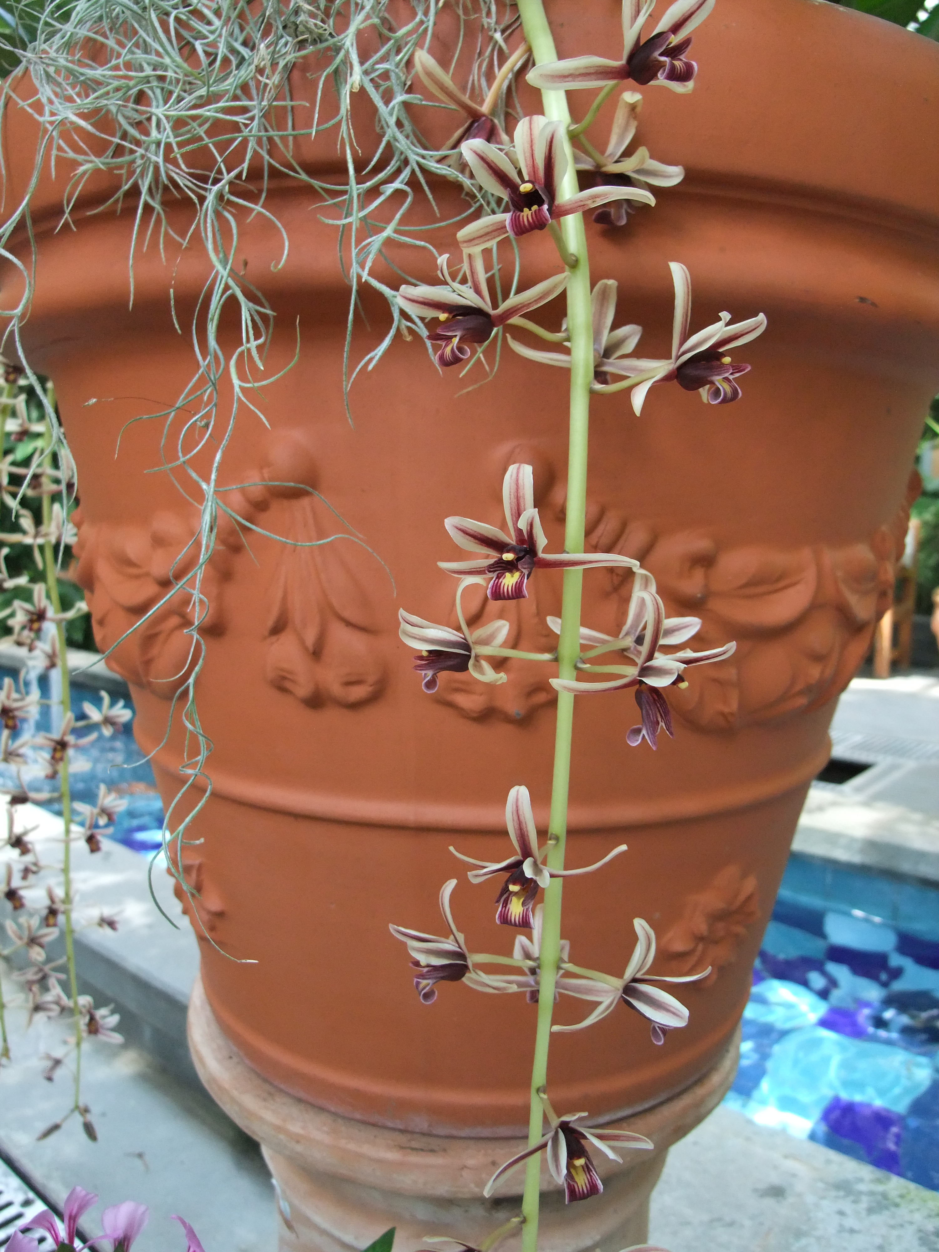 A photograph of a flower spike from Cymbidium aloifolium.